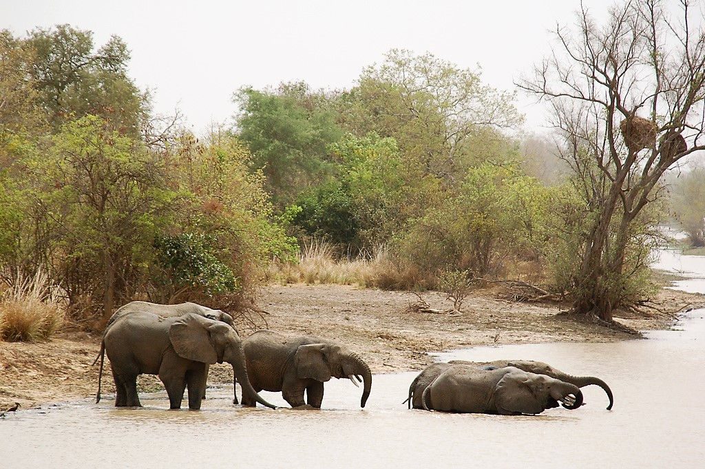 Elephants photographed in the Niger section of the Parc W du Niger complex of protected areas. Given the size a topography, this is likely a smaller river, not the Niger itself. Wider view shows nests in trees. Termites? birds?